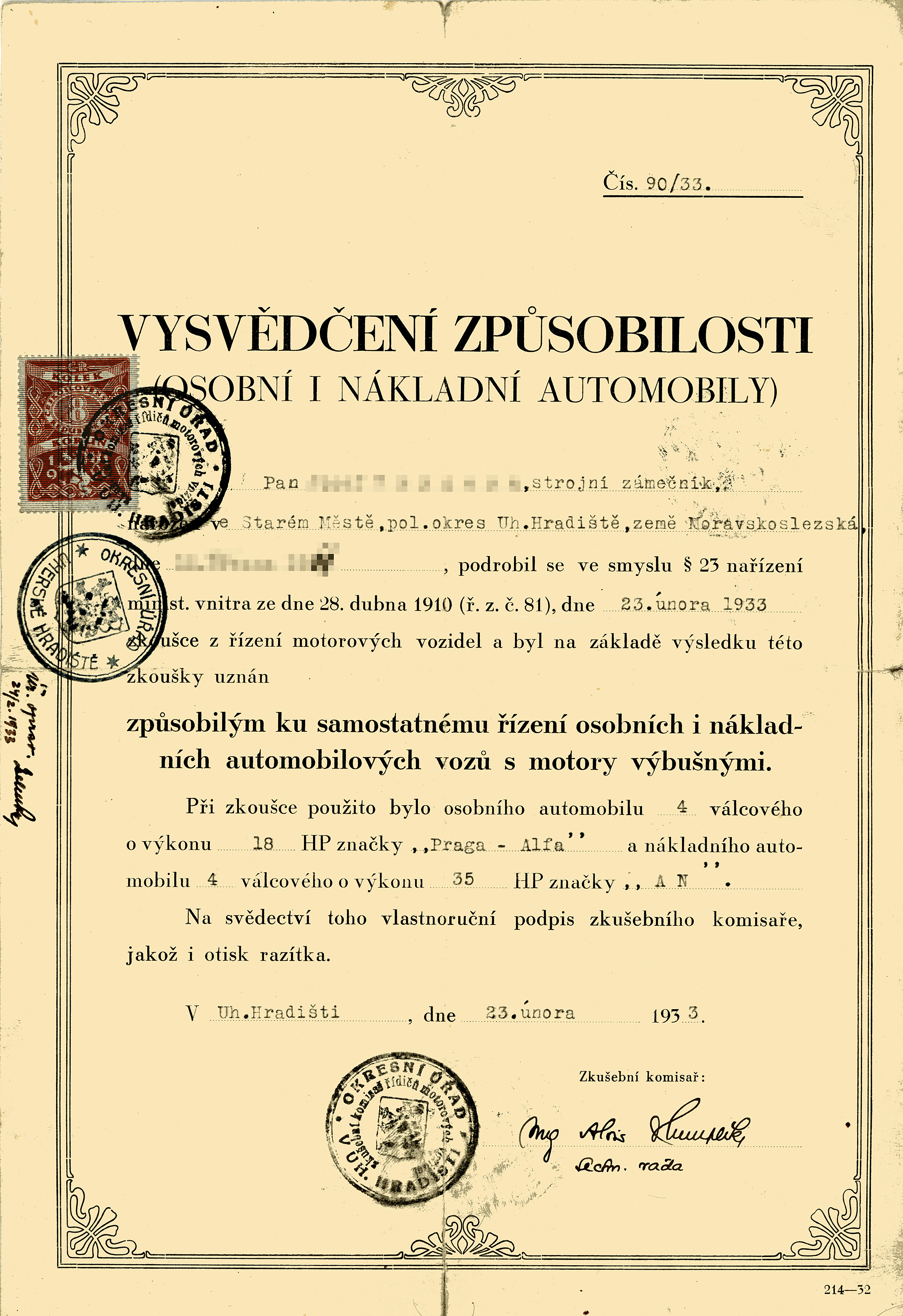 “Certificate of competency” – historical Czechoslovak driver’s licence for both private cars and trucks